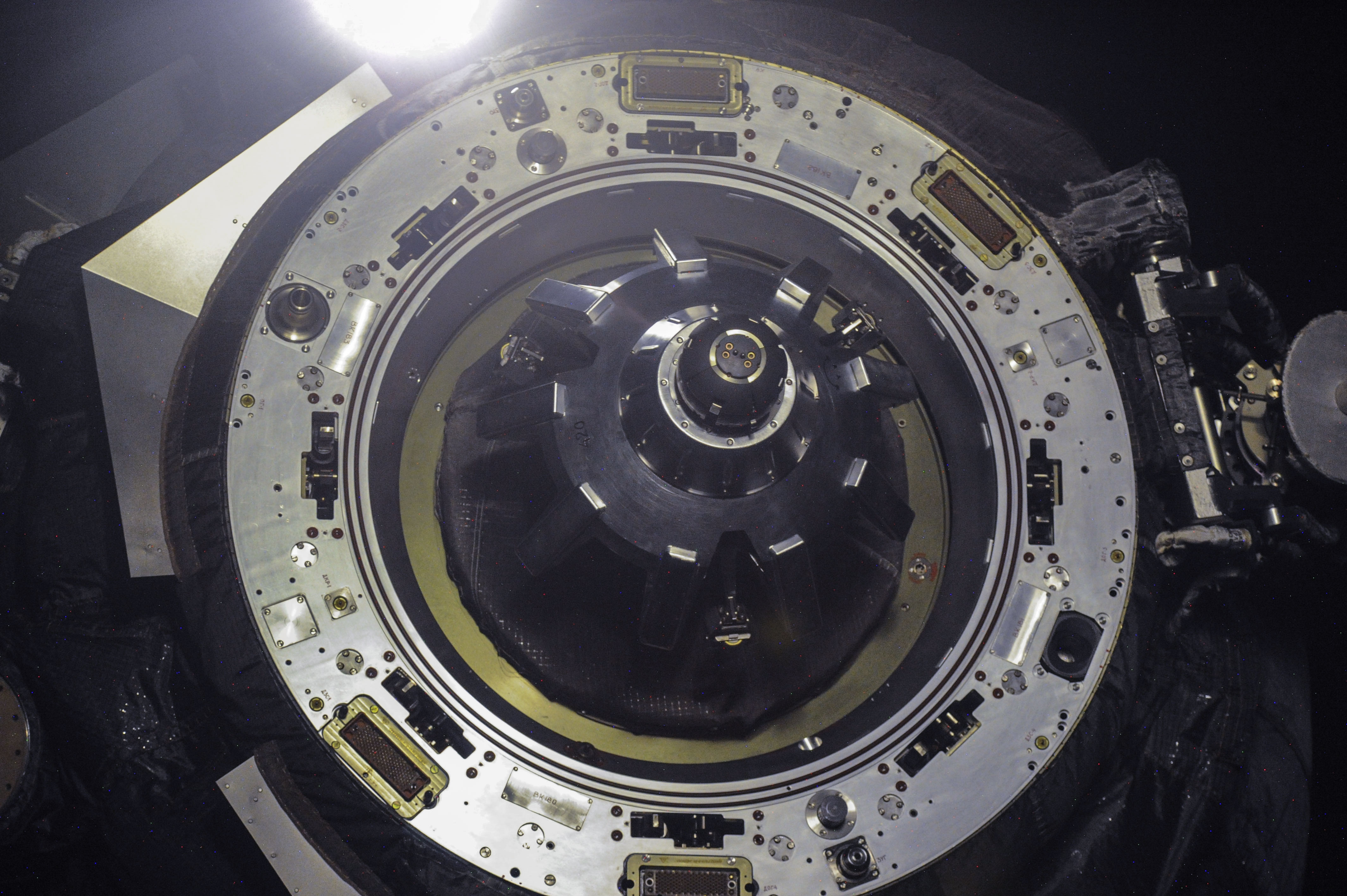 ISS038-E-041175 (3 Feb. 2014) --- This close-up view shows the docking mechanism of the unpiloted Russian ISS Progress 52 resupply ship as it undocks from the International Space Station's Pirs Docking Compartment at 11:21 a.m. (EST) on Feb. 3, 2014. The Progress backed away to a safe distance from the orbital complex to begin several days of tests to study thermal effects of space on its attitude control system. Filled with trash and other unneeded items, the Russian resupply ship will be commanded to re-enter Earth's atmosphere Feb. 11 and disintegrate harmlessly over the Pacific Ocean.